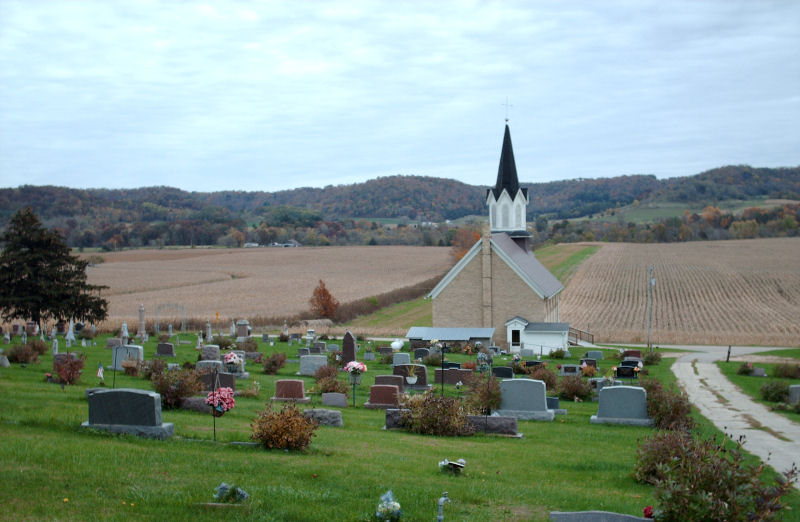 Basswood Cemetery, a typical church graveyard. This one is located in Basswood, Wisconsin, a rural community approximately three miles (5km) northwest of Muscoda, Wisconsin.